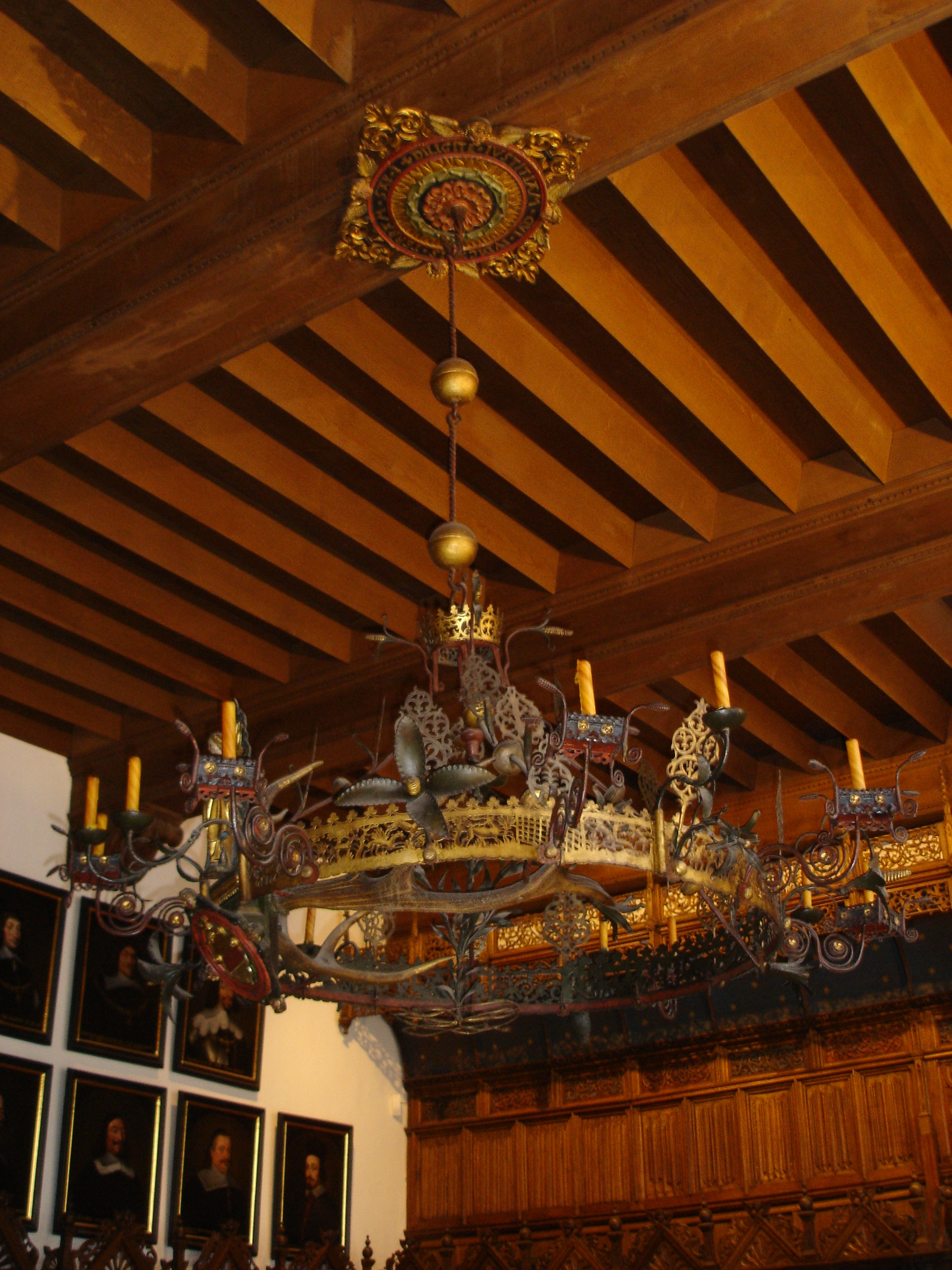 Chandelier of the "Friedenssaal" in the historical city hall in Münster, Westphalia, Germany